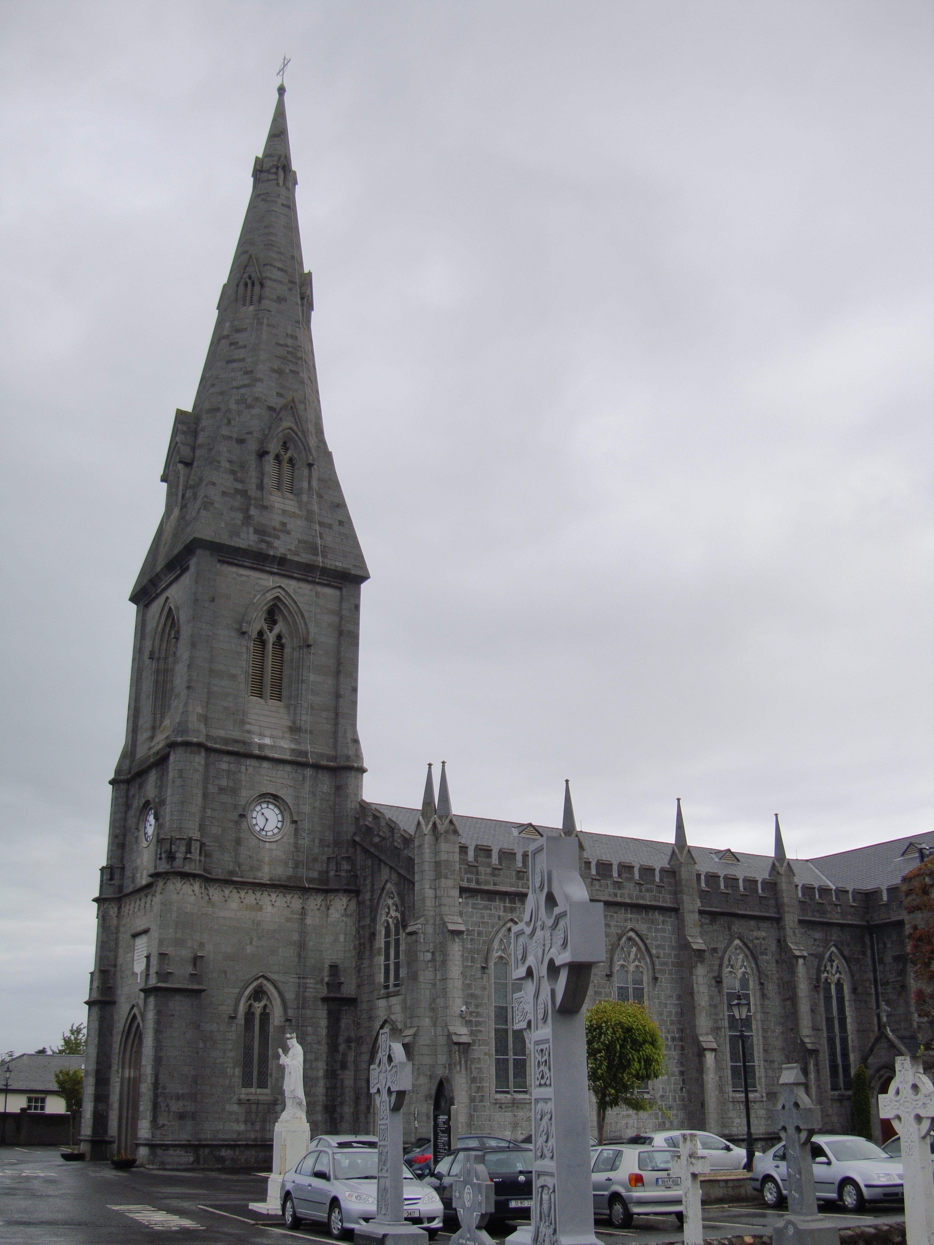 Photograph of Ballina Cathedral, Co. Mayo, Ireland